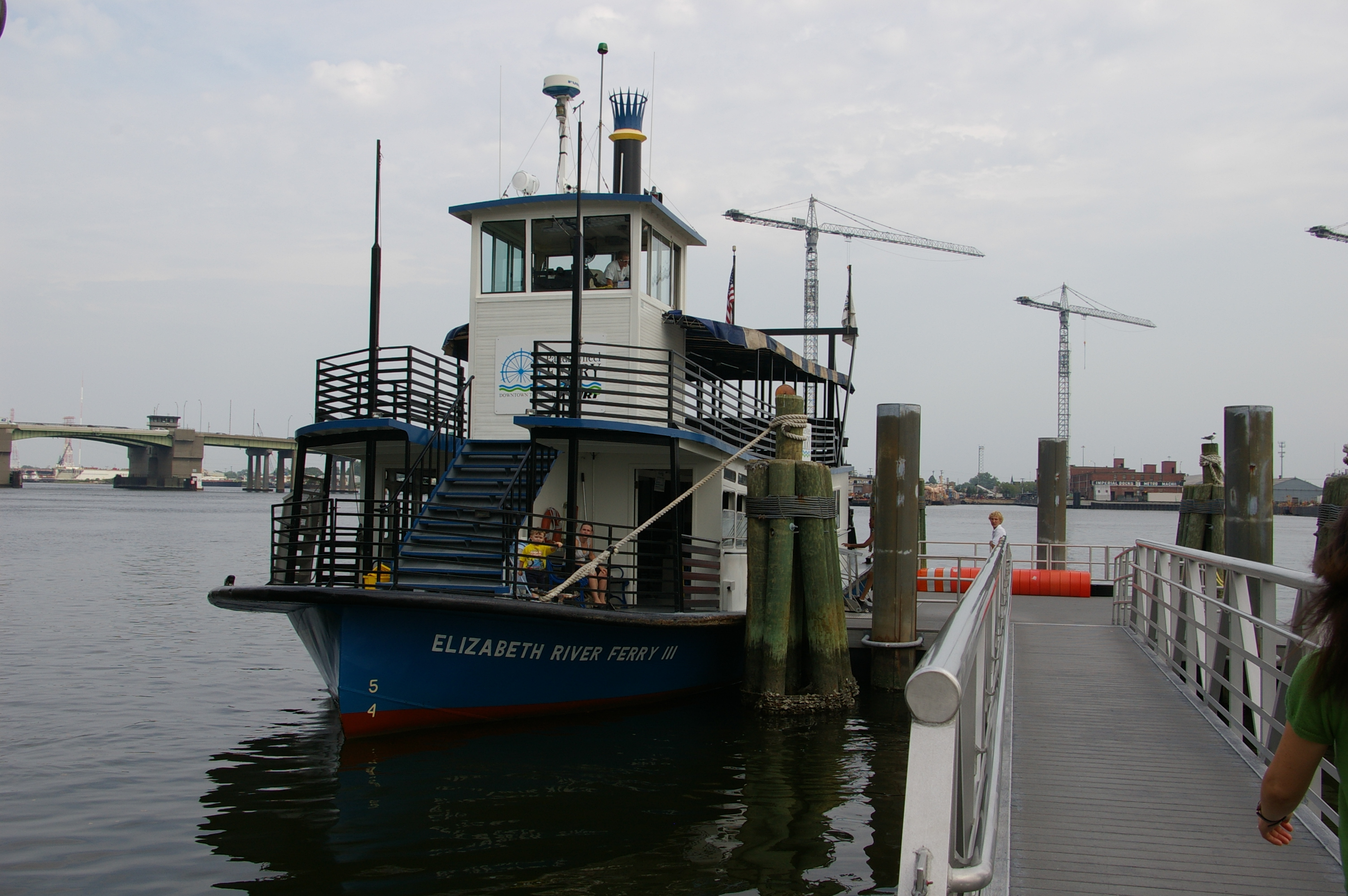 The Hampton Roads Transit Paddlewheel Ferry is a system of three 150-passenger paddle-wheel ferry boats, one of which is the world's first natural gas-powered pedestrian ferry. The Ferry travels between North Landing and High Street in Portsmouth and Downtown Norfolk at The Waterside.